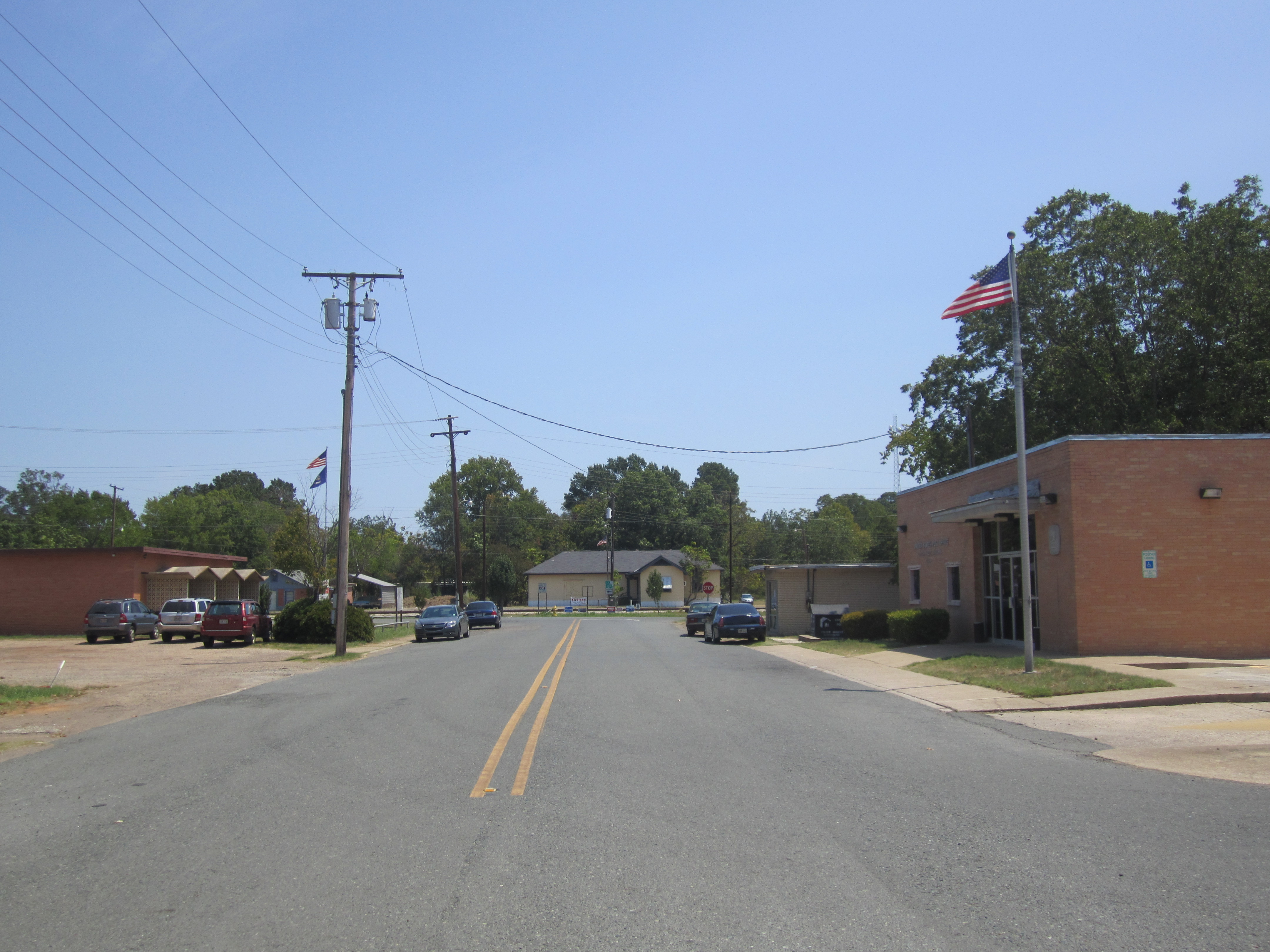 I took photo with Canon camera of downtown Cotton Valley, LA.